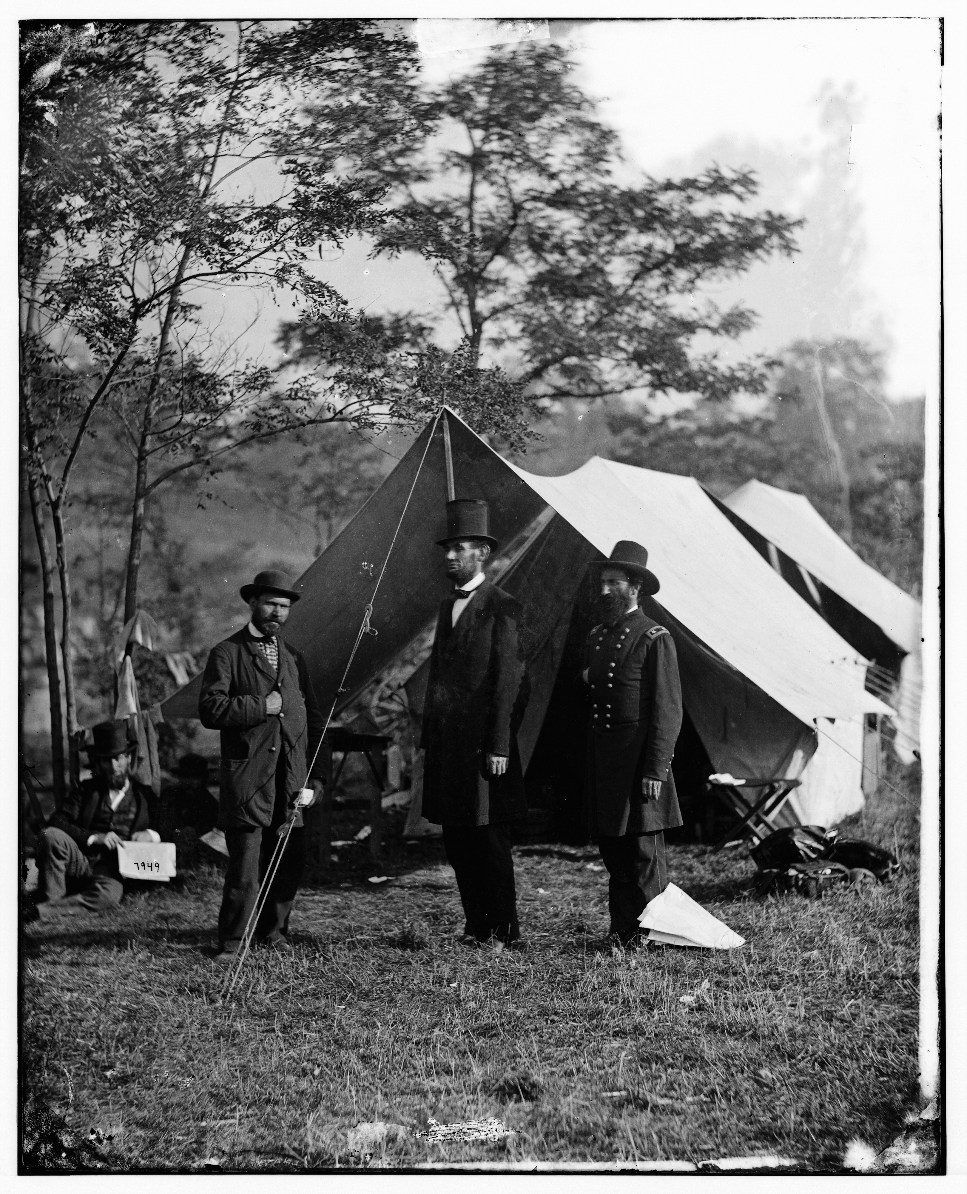 Allan Pinkerton, President Abraham Lincoln, and Major General John A. McClernand. This photo was taken not long after the Civil War’s first battle on northern soil in Antietam, Maryland on October 3, 1862. Pinkerton was the head of Union Intelligence Services at the time. He also, allegedly, foiled an assassination attempt against Lincoln. His wartime work was critical in Pinkerton’s development, which he later used to pioneer the American private detective industry when he formed the Pinkerton National Detective Agency.